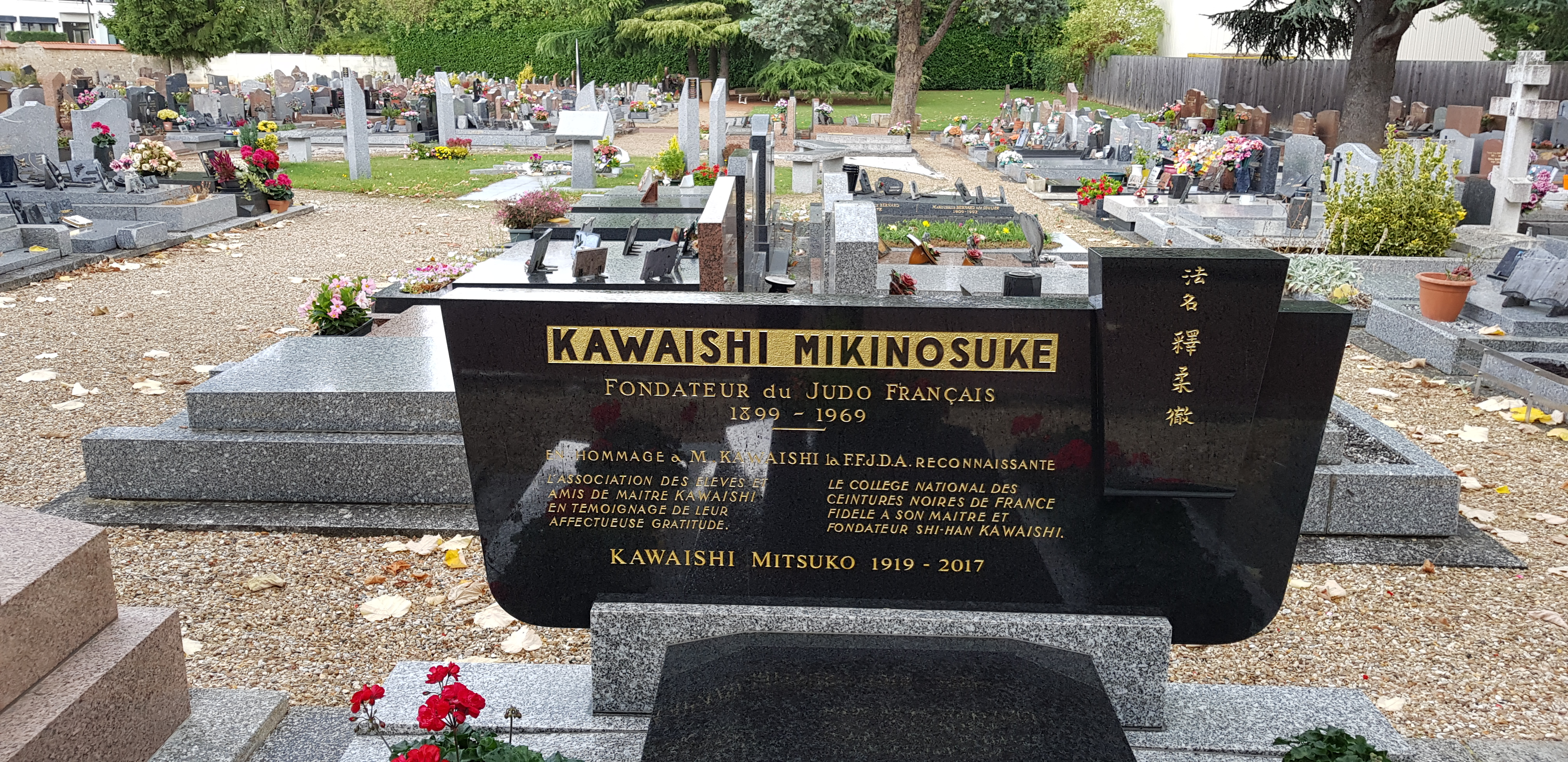 Kawaishi Mikinosuke's grave